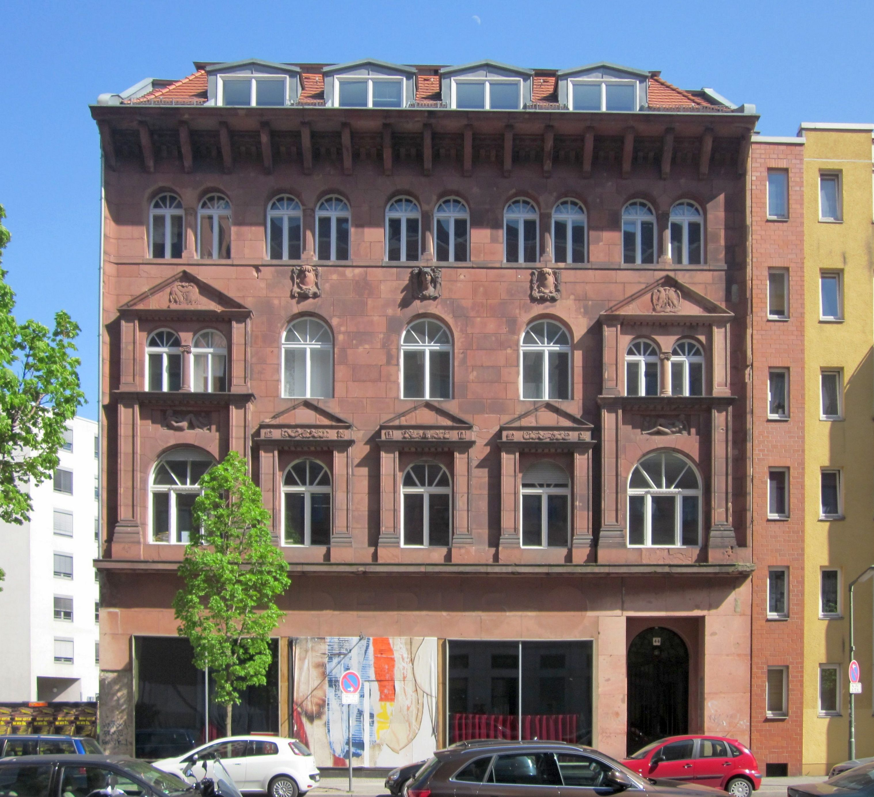 The Künstlerhaus (Artists' House) at Köthener Straße No. 44 in Berlin-Kreuzberg. It was constructed in 1911 to a design by Paul Zimmerreimer as bank building for Deutscher Creditverein. It is now used by a number of cultural institutions. The building has been designated as a cultural heritage monument.